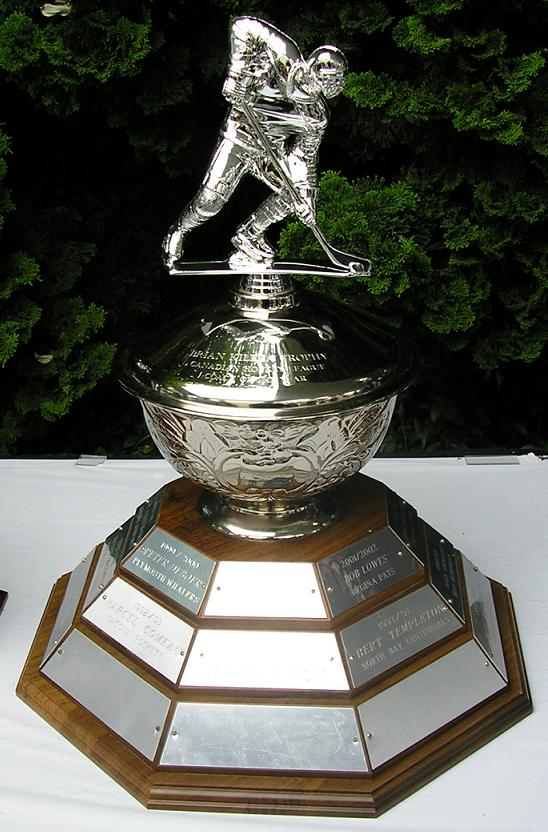 Photo I took of the Brian Kilrea Trophy at the 2007 Memorial Cup in Vancouver.